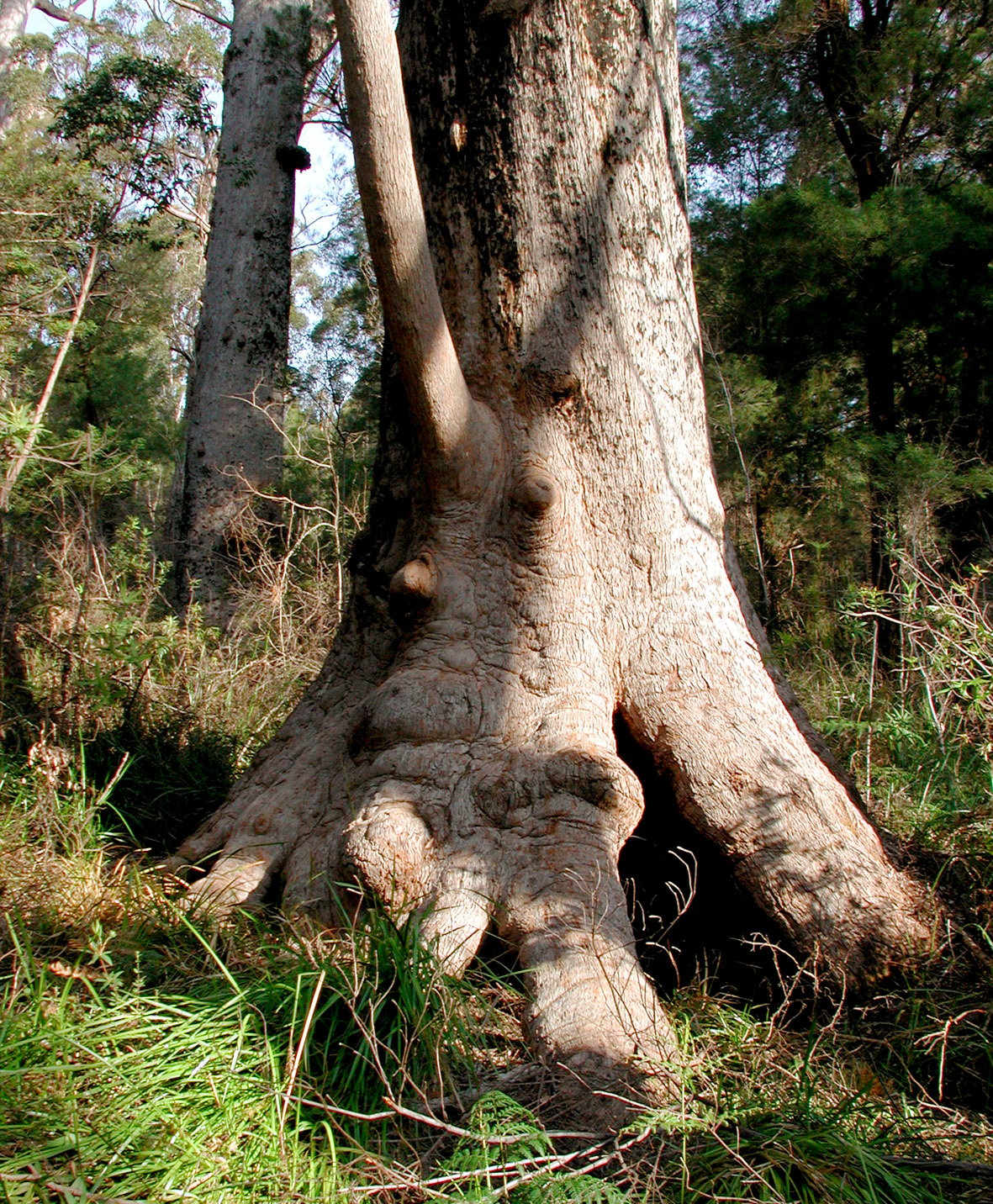 Tingle Tree, Valley of the Giants, Denmark, Western Australia.